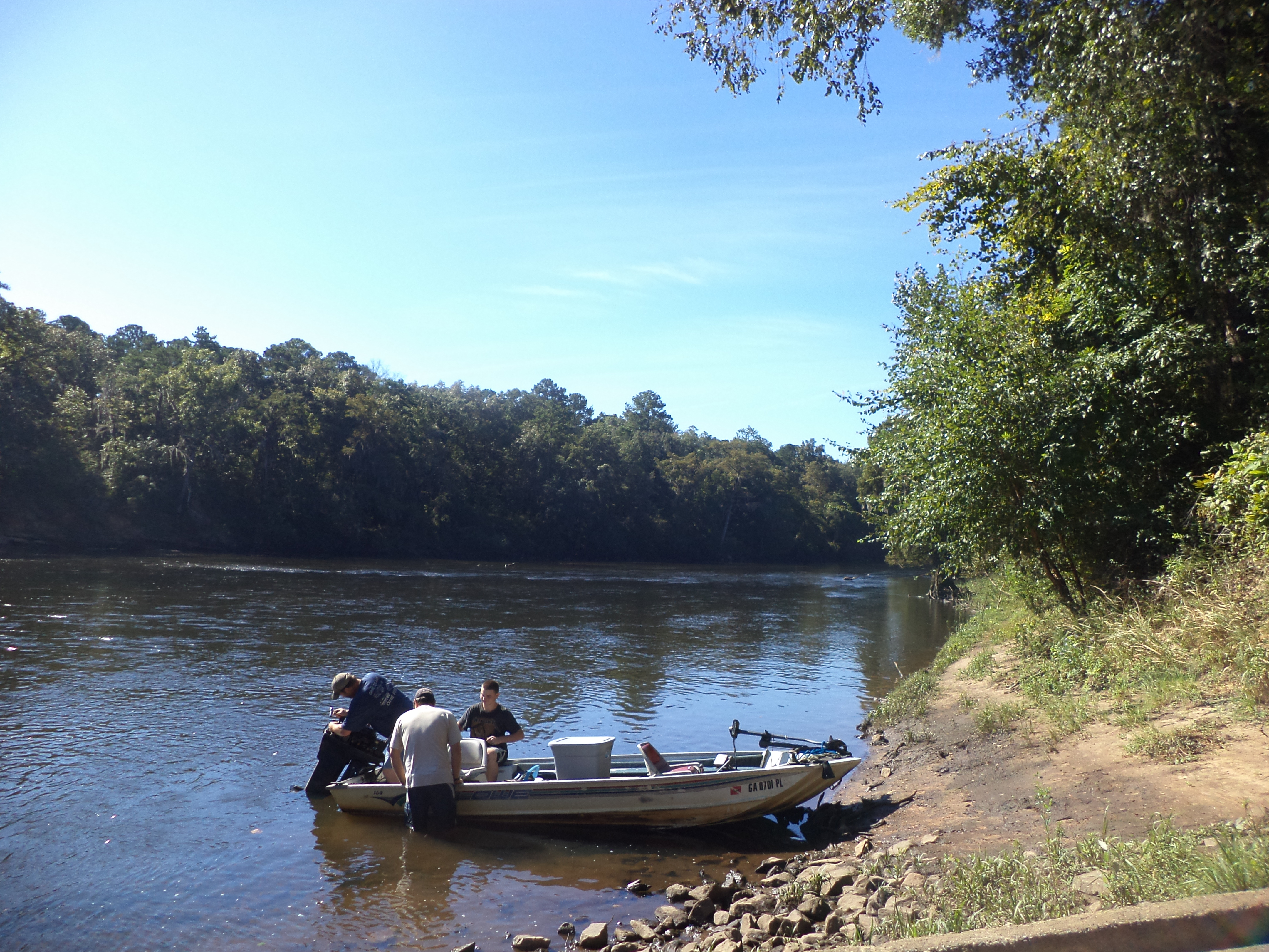 Boaters on Flint River, GA 32, Lee County, Georgia